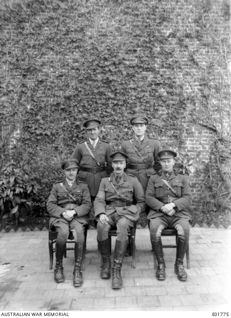 Group portrait of the officers of the 12th Brigade staff. Left to right, back row: Lieutenant (Lt) C. S. Sharp MM; Lt J. W. Stabback MC. Front row: Major R. H. Norman DSO MC; Brigadier General John Gellibrand CB DSO; Captain A. L. Varley MC.